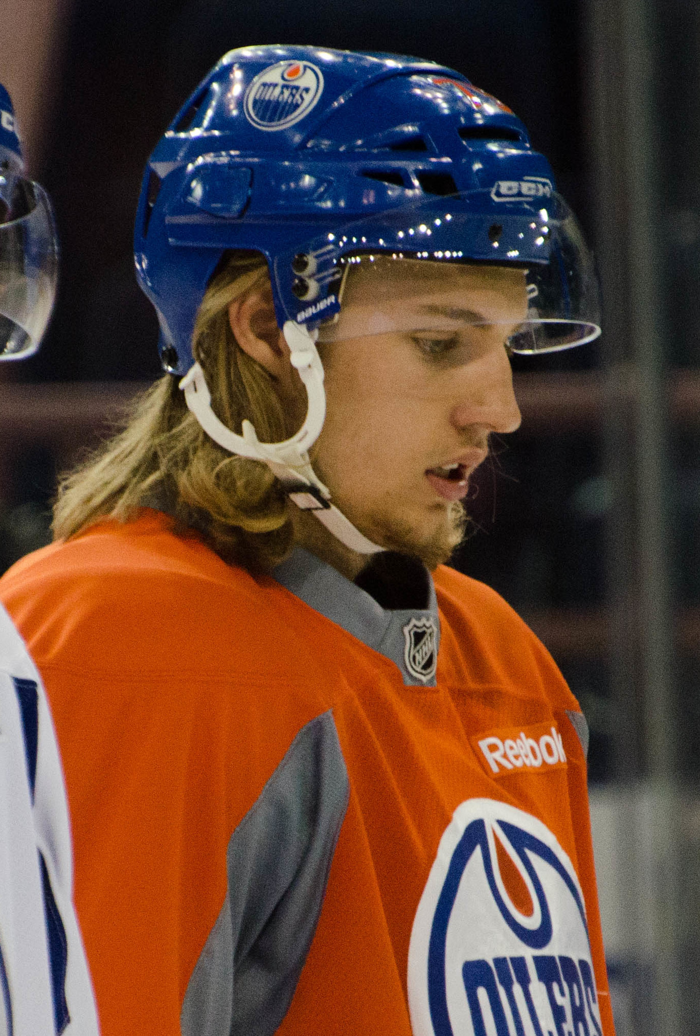 William Lagesson in 2015